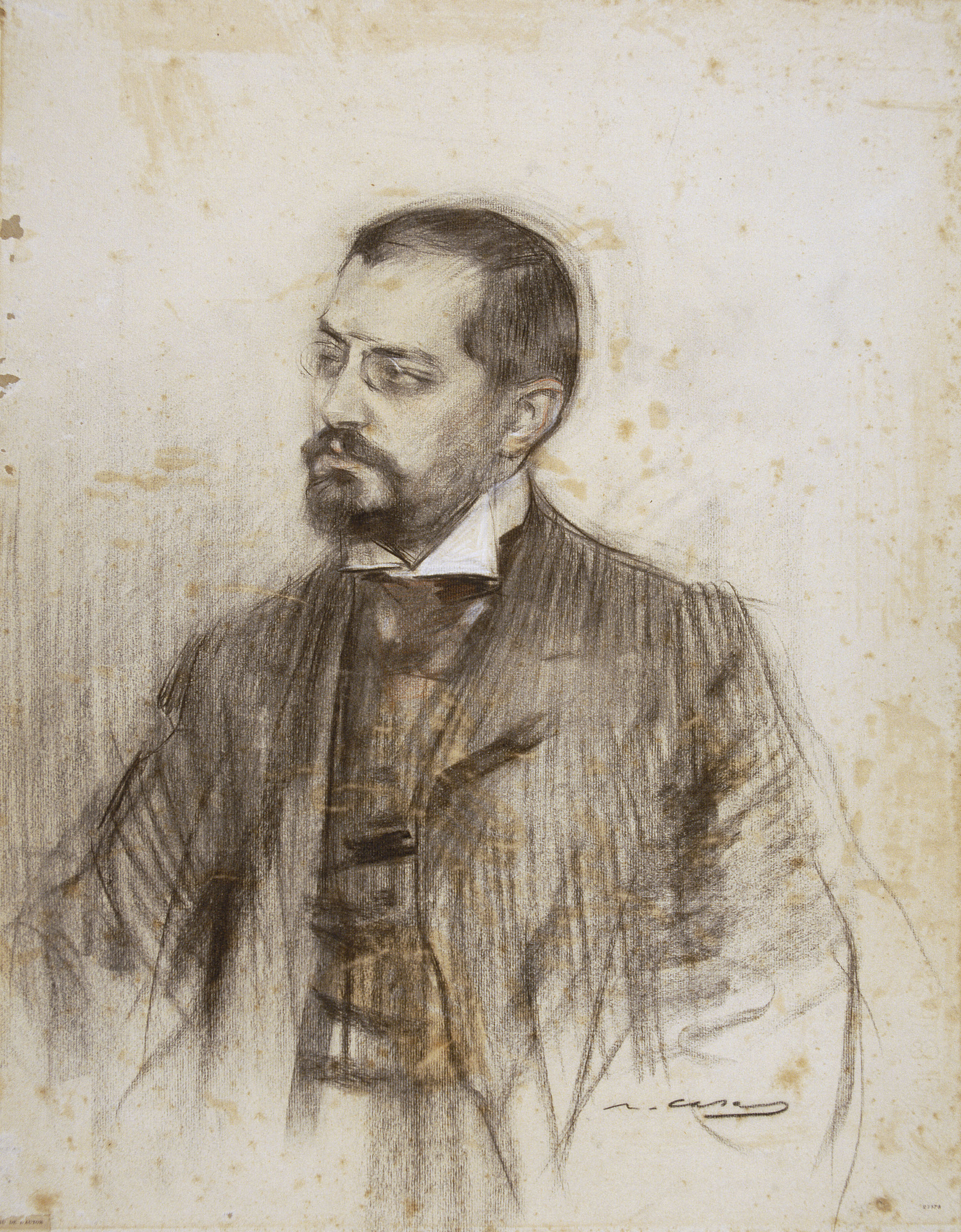 Portrait by Ramon Casas conserved at MNAC in Barcelona.